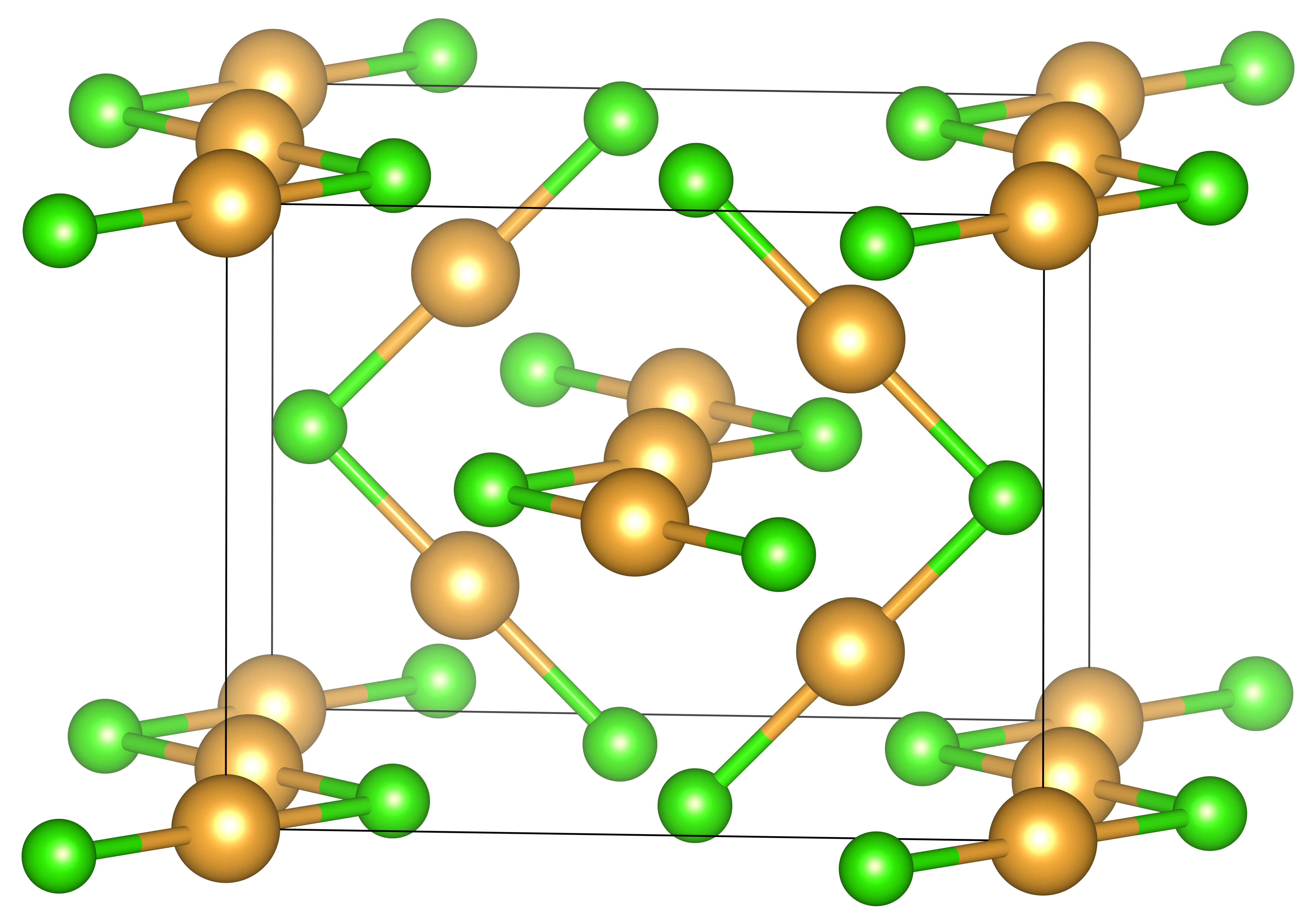 Unit cell of gold(I) chloride (AuCl). Created with VESTA. Source of crystal structure